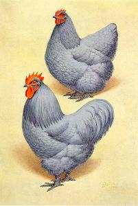 Orpington